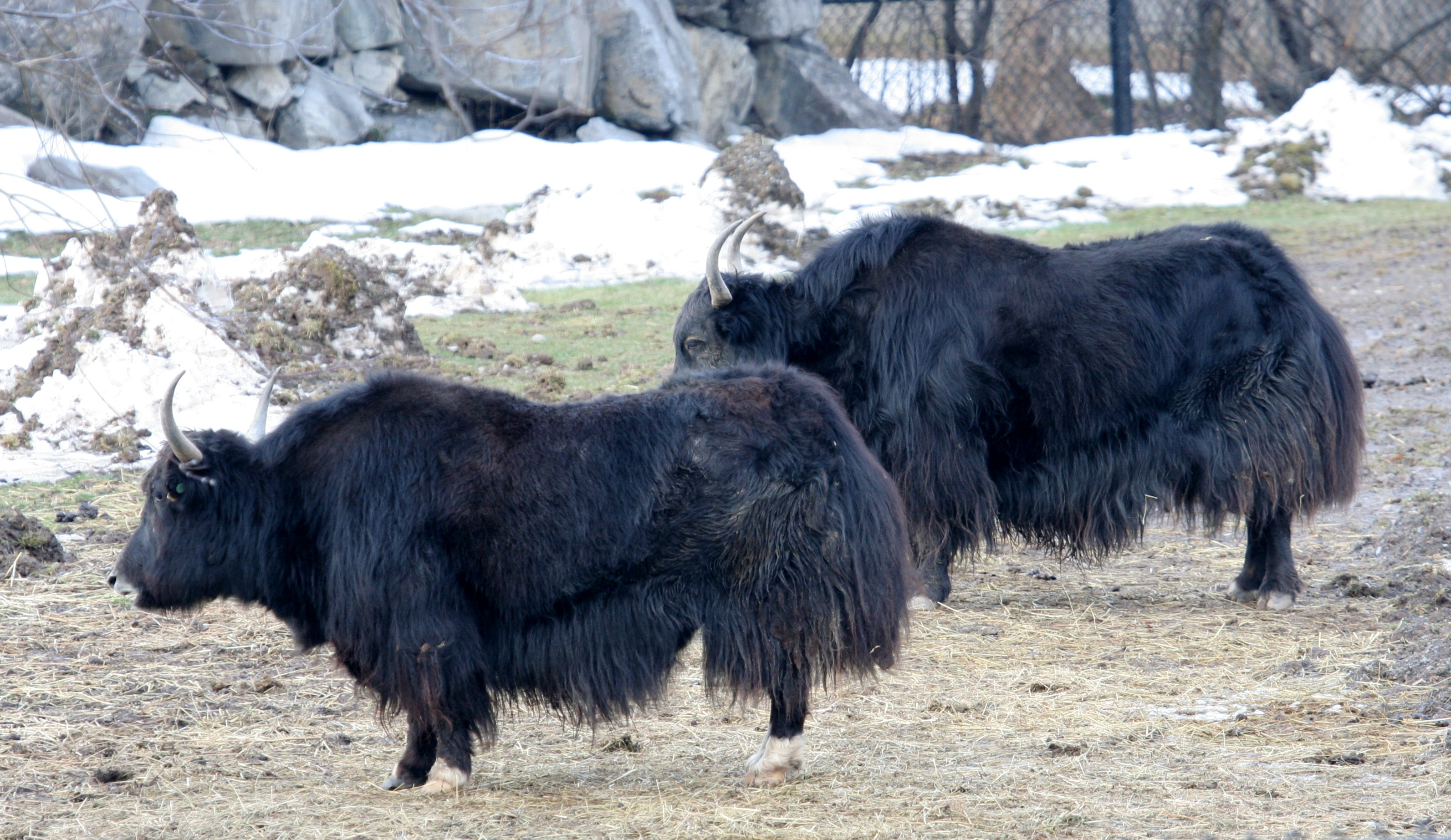 Yak (Bos grunniens) at the Rosamond Gifford Zoo, Syracuse, New York.